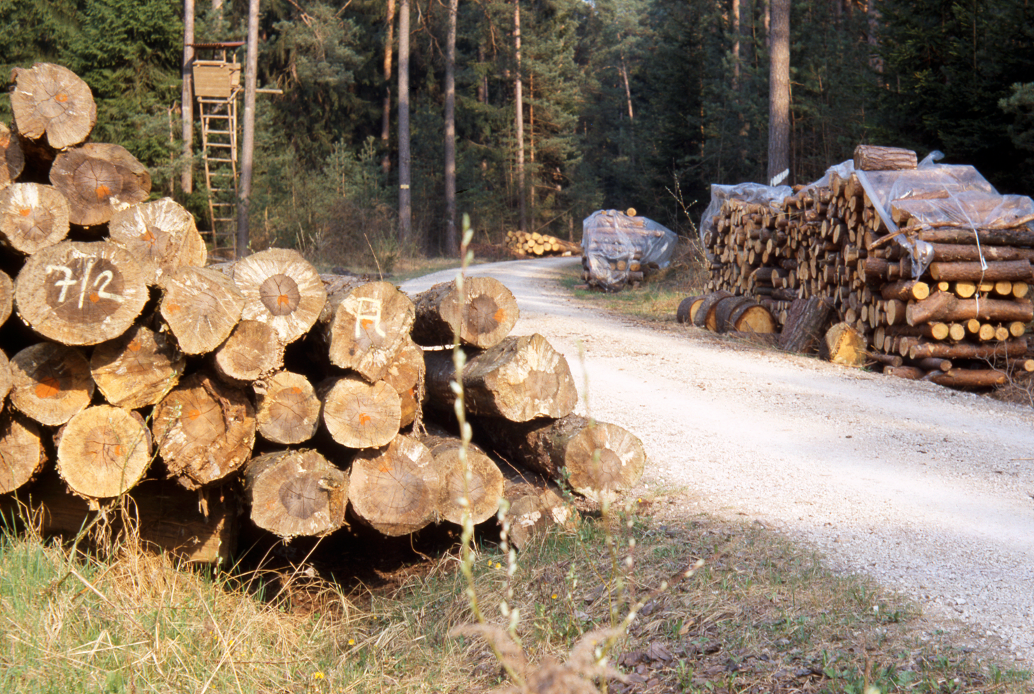 Cutting wood, stack of wood.